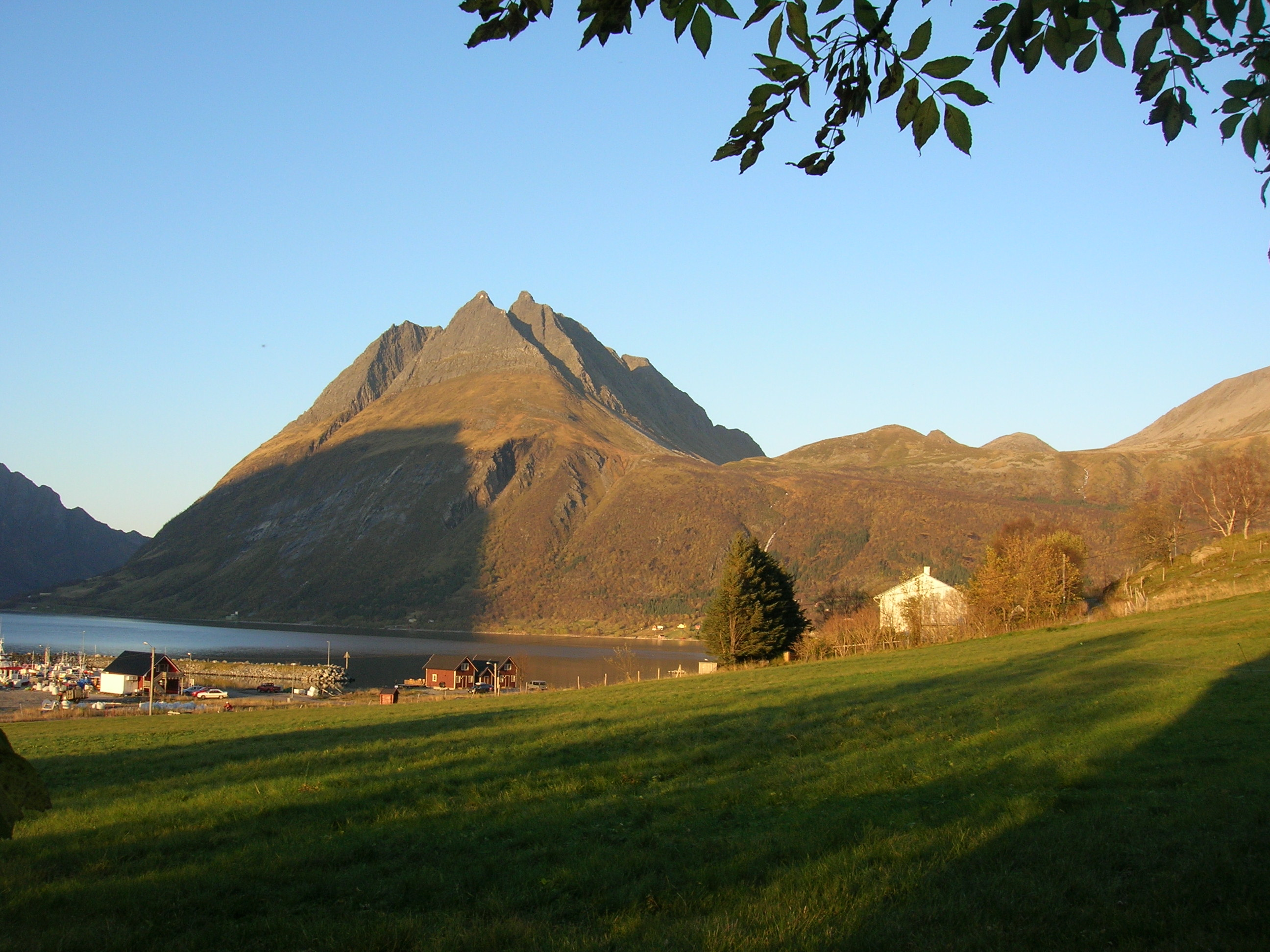 Picture from Aldersundet, Lurøy municipality, Nordland, Norway, Photo October 8, 2005 with a Nikon Coolpix 5600 5,1 Megapixel camera.